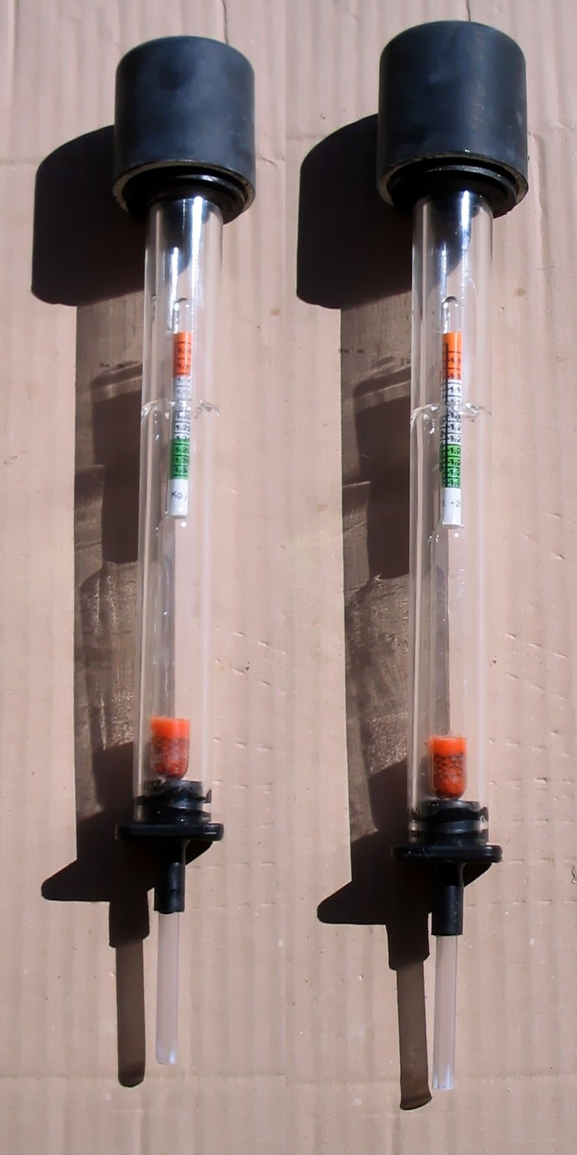 Hydrometer for Lead Acid Battery.